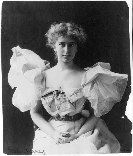 Frances Benjamin Johnston (1864-1952)/LOC cph.3b24474. Natalie Clifford Barney, between ca. 1890 and ca. 1910